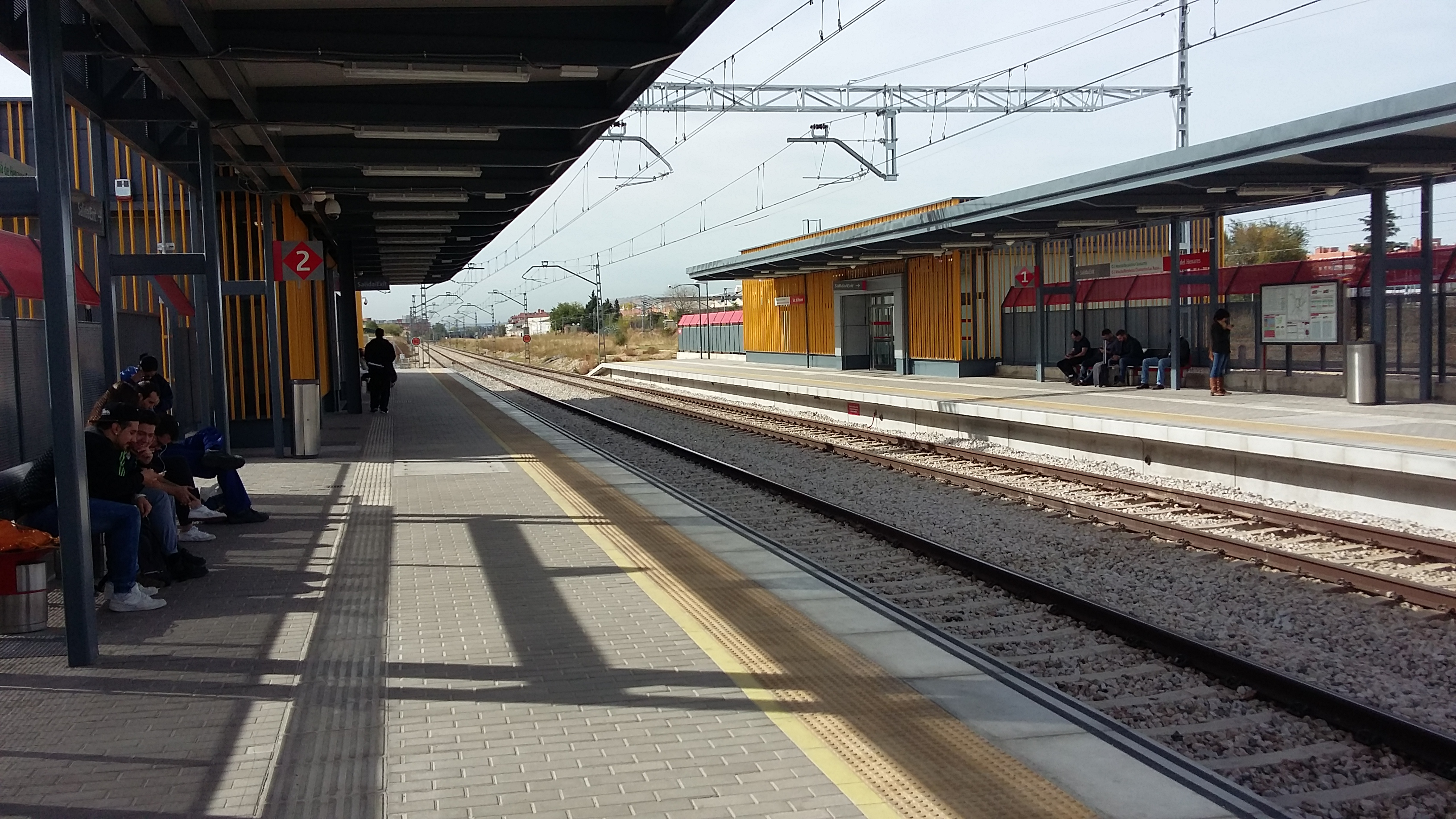 Soto del Henares Station, Torrejón de Ardoz, Spain.